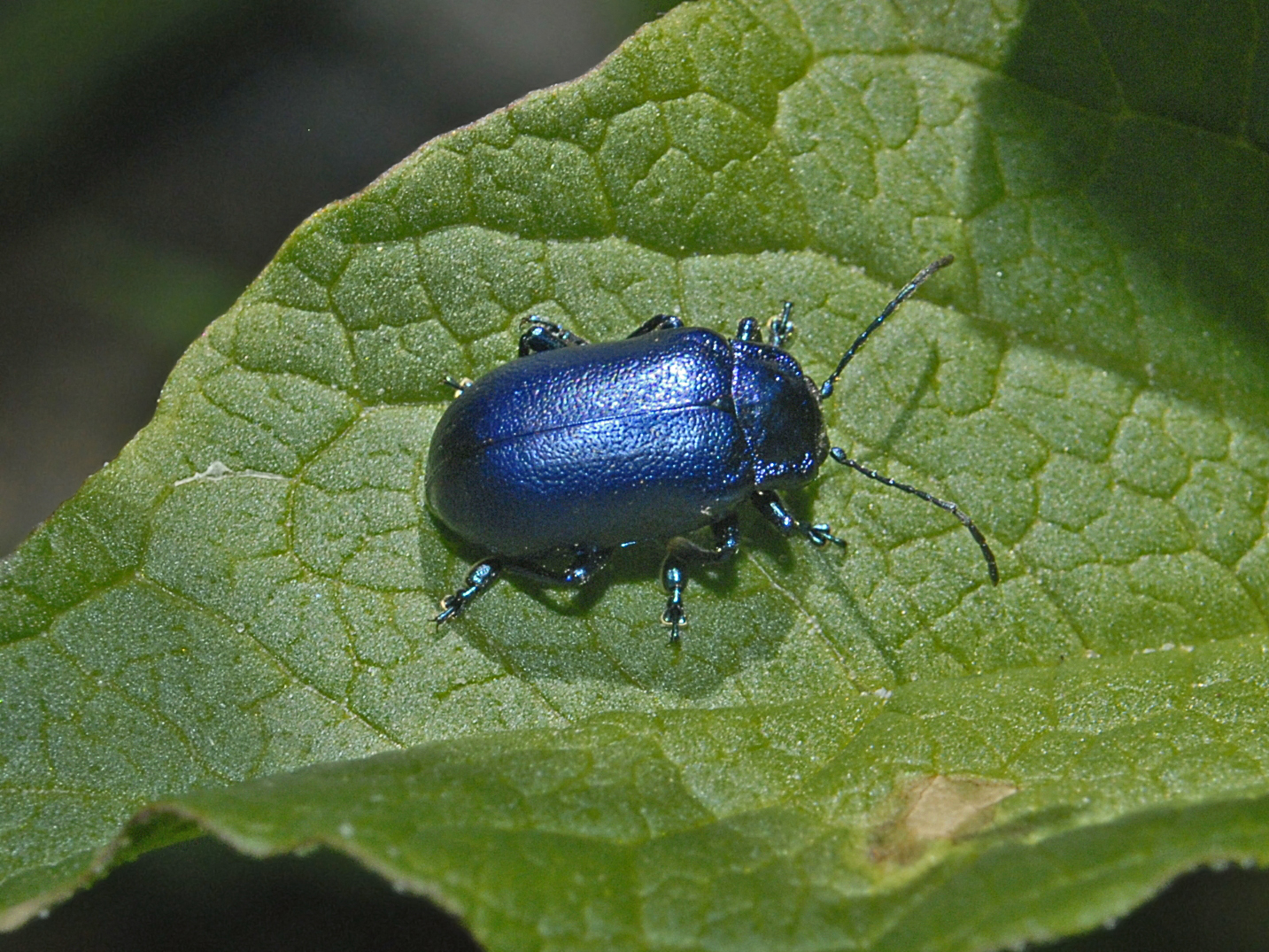 Oreina cf. cacaliae. Piccolo San Bernardo, Italy